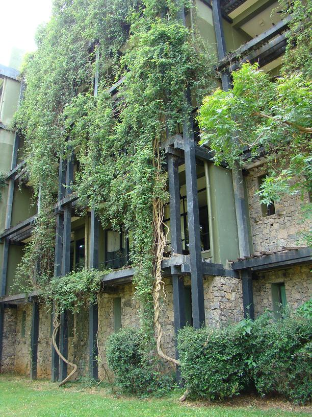 This is an image of Kandalama Hotel. Located at Dumbulla, Sri Lanka